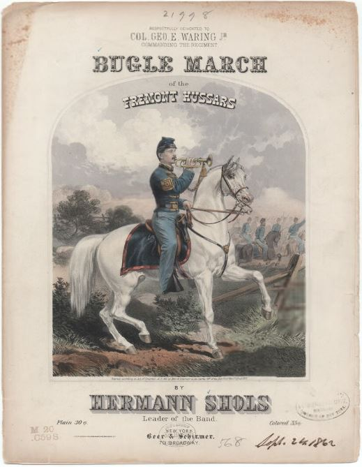 Colored print shows a bugler mounted on a white horse. The bugler wears a military uniform with a blue coat and light blue trousers. The title page of sheet music reads "Bugle March of the Fremont Hussars".